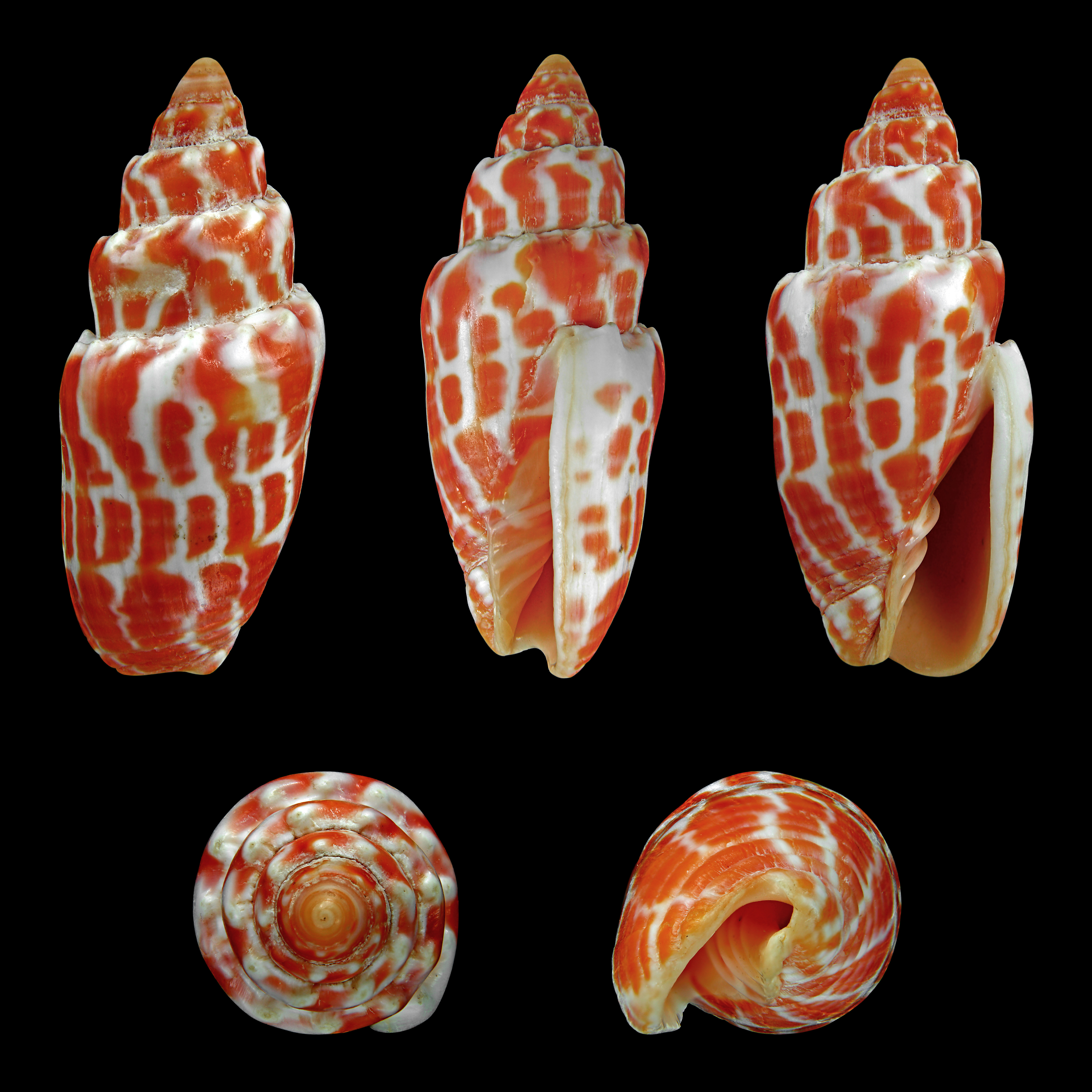 Pontifical Mitre, Length 6 cm; Originating from Queensland, Australia; Shell of own collection, therefore not geocoded. Dorsal, lateral (right side), ventral, back, and front view.